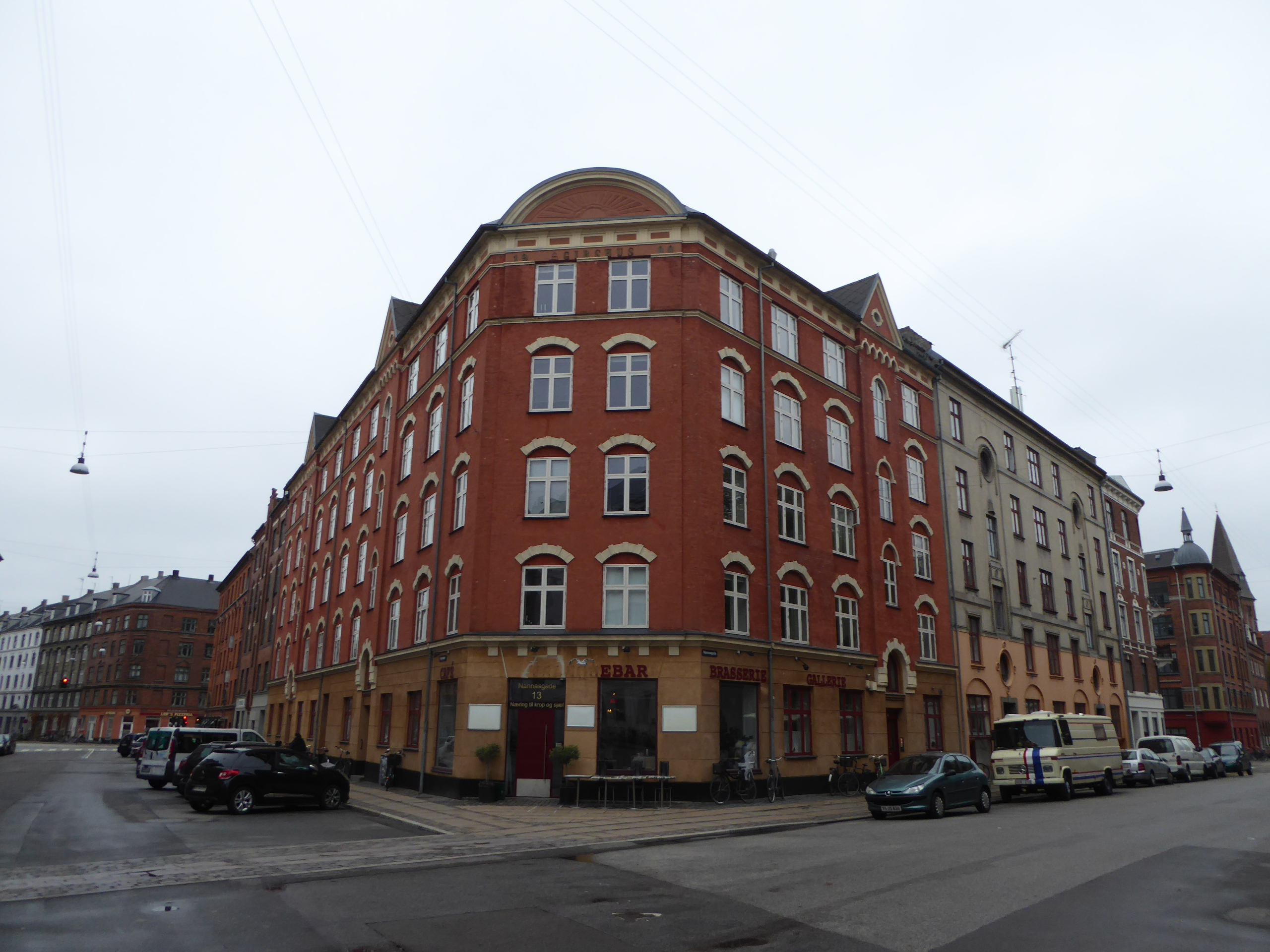 Apartment building at the corner of Ægirsgade and Nannasgade in Nørrebro in Copenhagen.